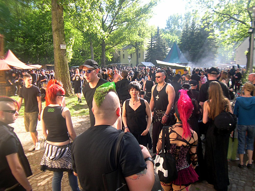 Photo from Heinrichsdorf (Pagan Village) - Leipzig By N.Reznikoff (Kooalia, Darkoid Radio).